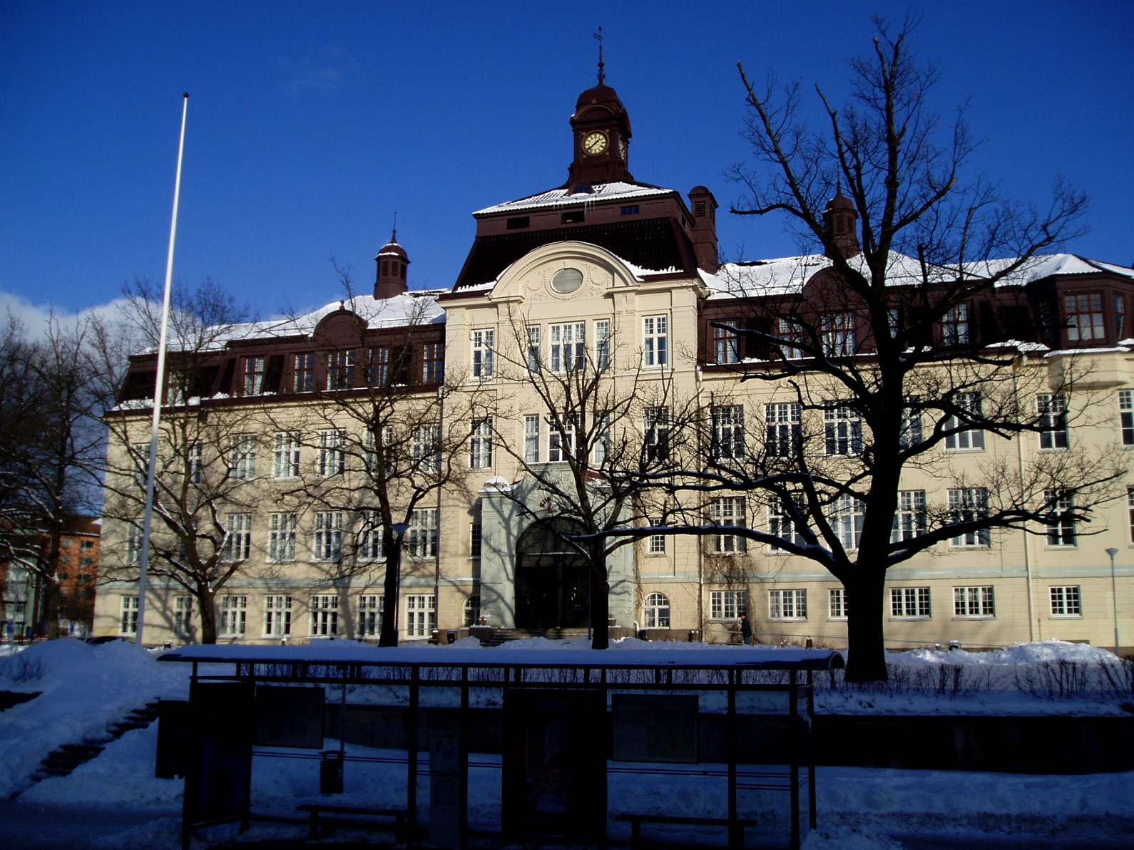 Scool in Södertälje, Sweden